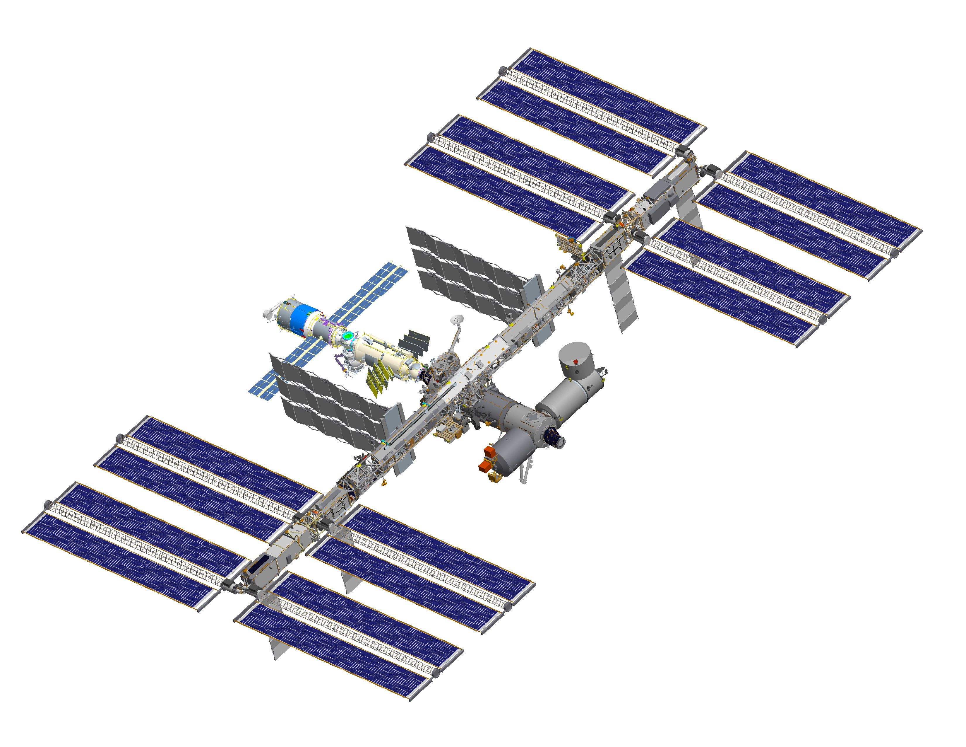 JSC2006-E-33316 (August 2006) --- Computer-generated artist's rendering of the International Space Station after flight STS-119/15A.